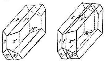 Twinned crystals of Albite